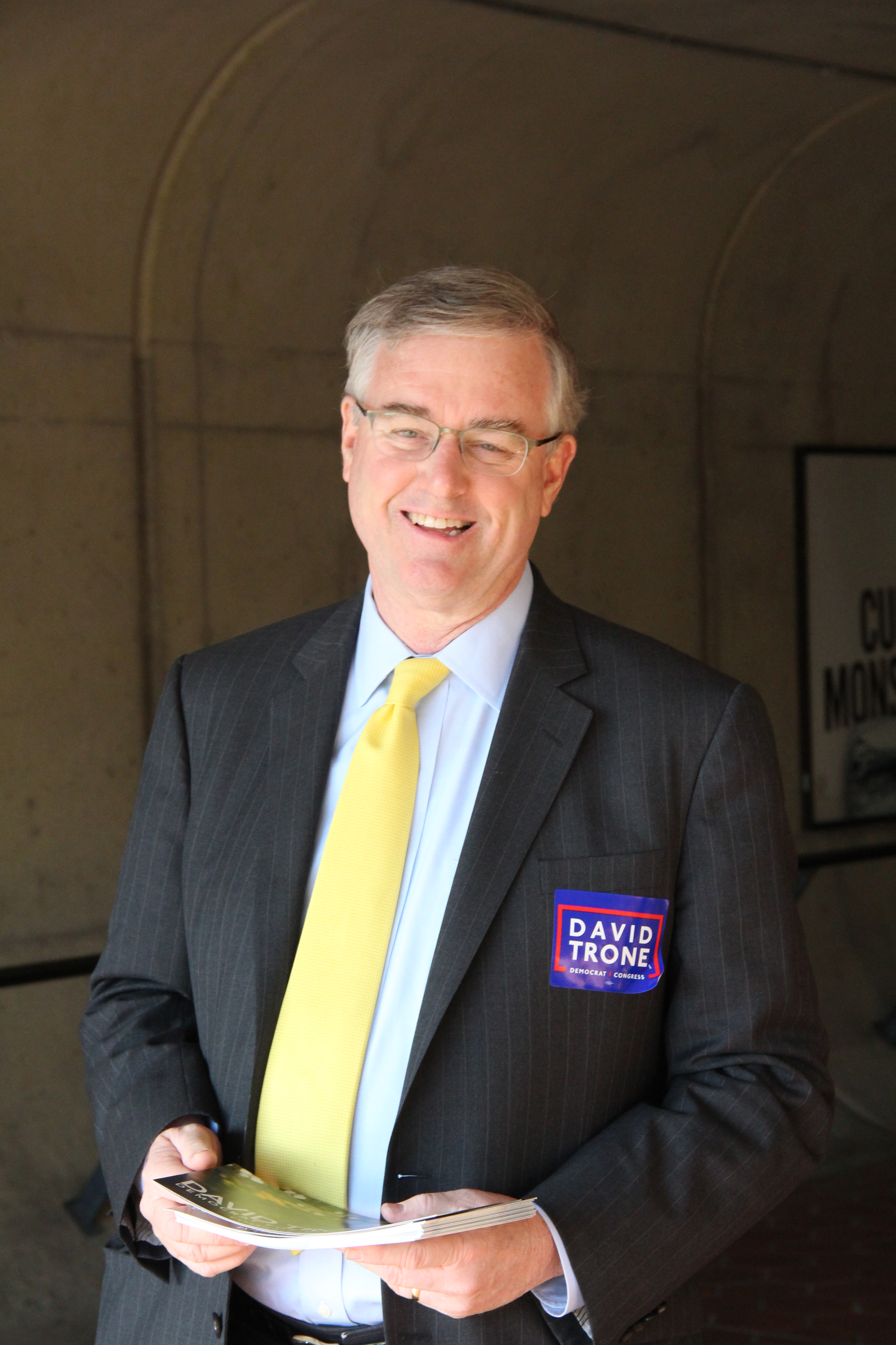 David Trone, congressional candidate for Maryland’s 8th Congressional District and multimillionaire owner of a wine distribution company, campaigning in Rockville Maryland 2016